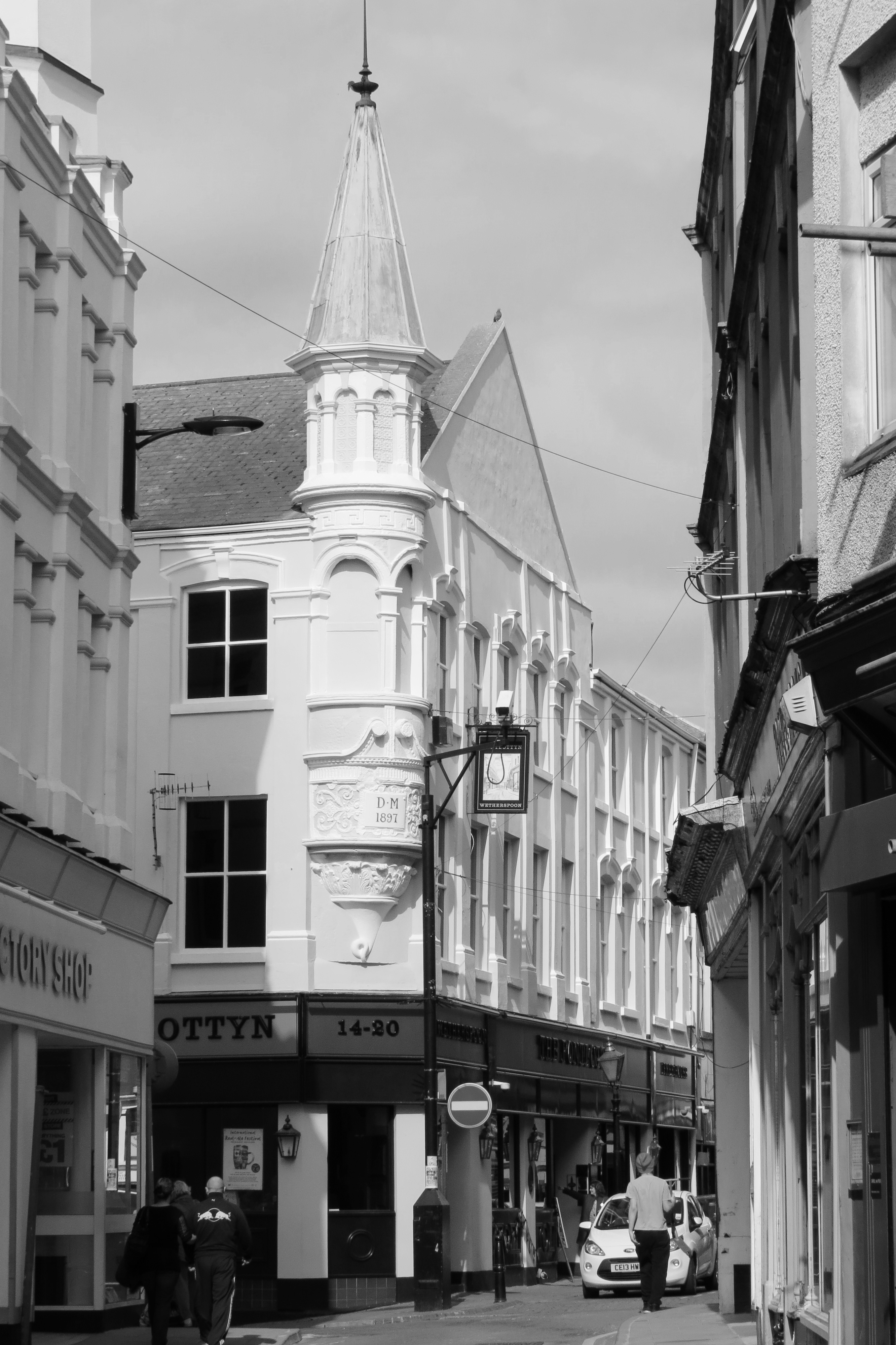 Abertillery - Renovated former department store - one example of the town's Victorian architecture.